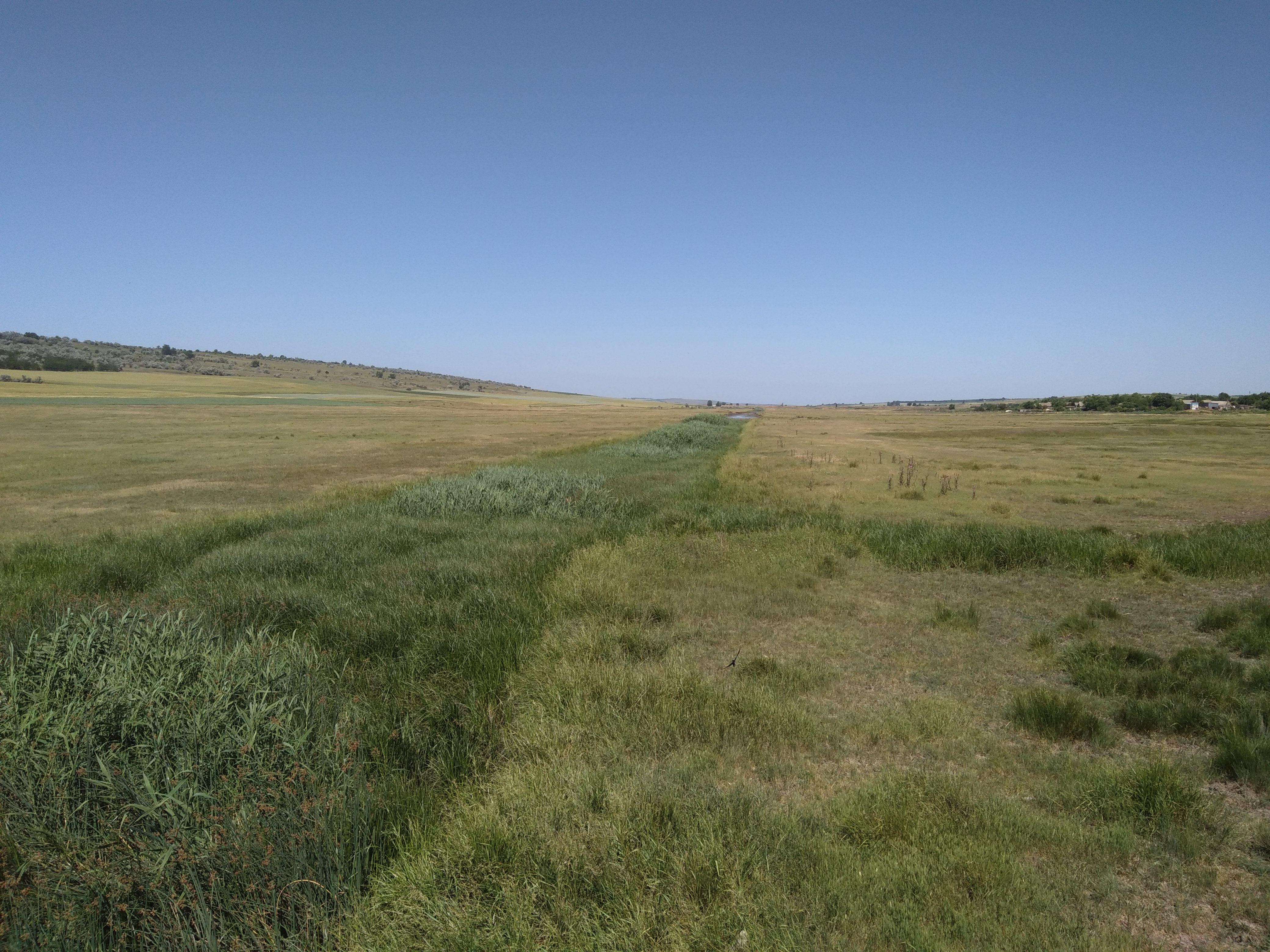 Chaga River, Odesa Oblast, Ukraine